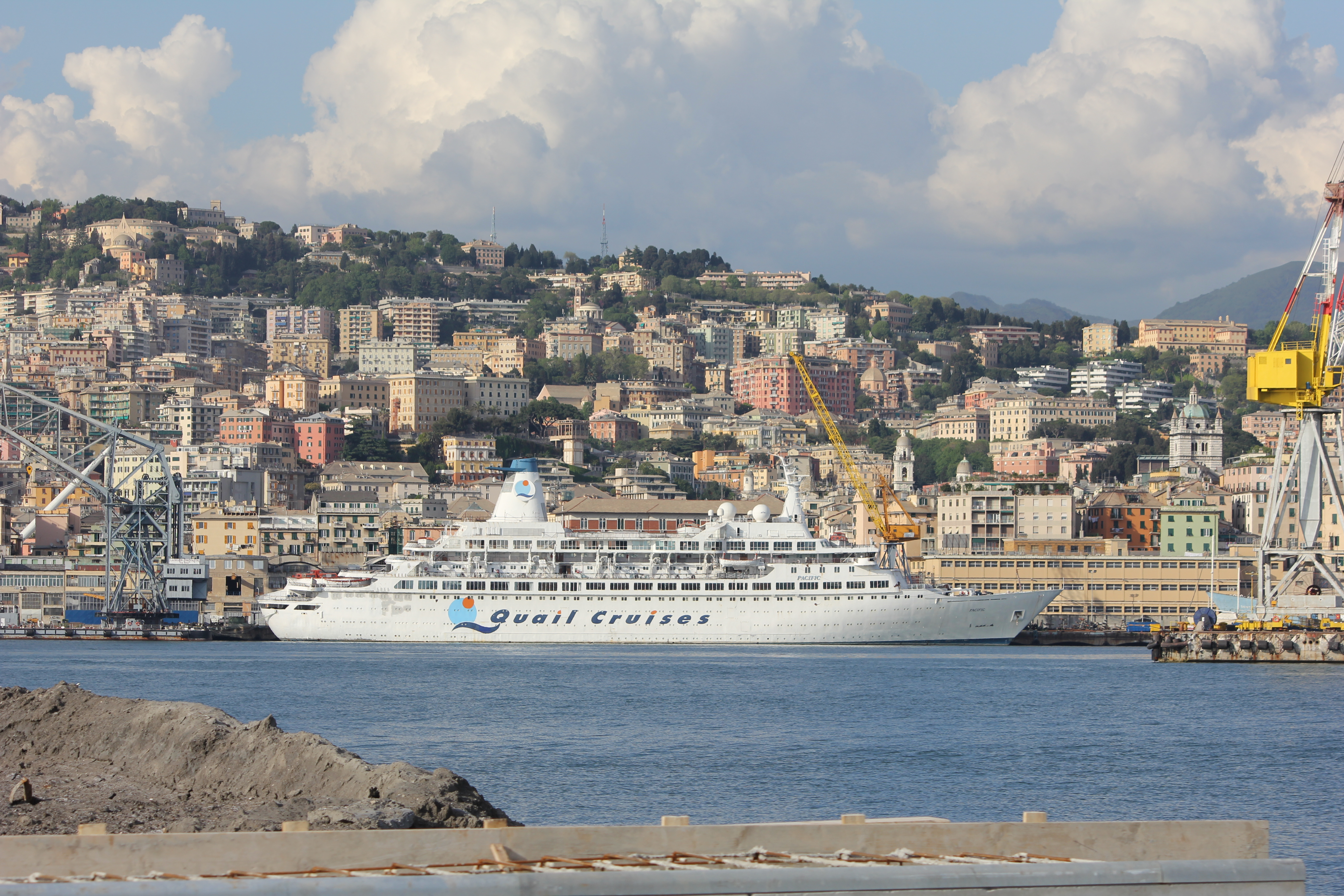 Cruise ship Pacific under detention in Genoa